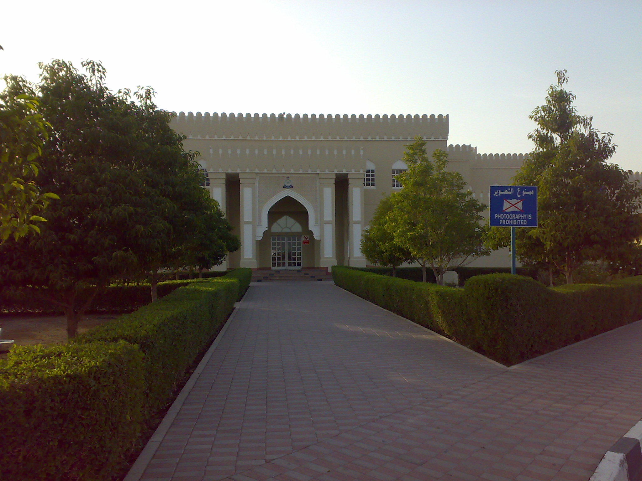 Al Wajajah border post towards UAE, Sultanate of Oman.